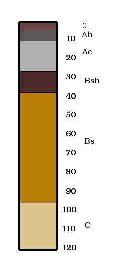 Diagram of a podzol soil. Climate: Maritime and cool. Precipitation: 800-1000 mm/year. Natural vegetation: Taiga and heaths.0=Raw humusAh=Dark grey sand with humusAe=Bleached sandBsh=Dark brown layer with hardpanBs=Rust-coloured sand with bands of hardpanC=Yellow grey sand